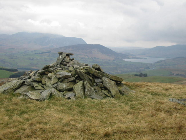 Moel Emoel Looking towards Llyn Celyn from the summit cairn.